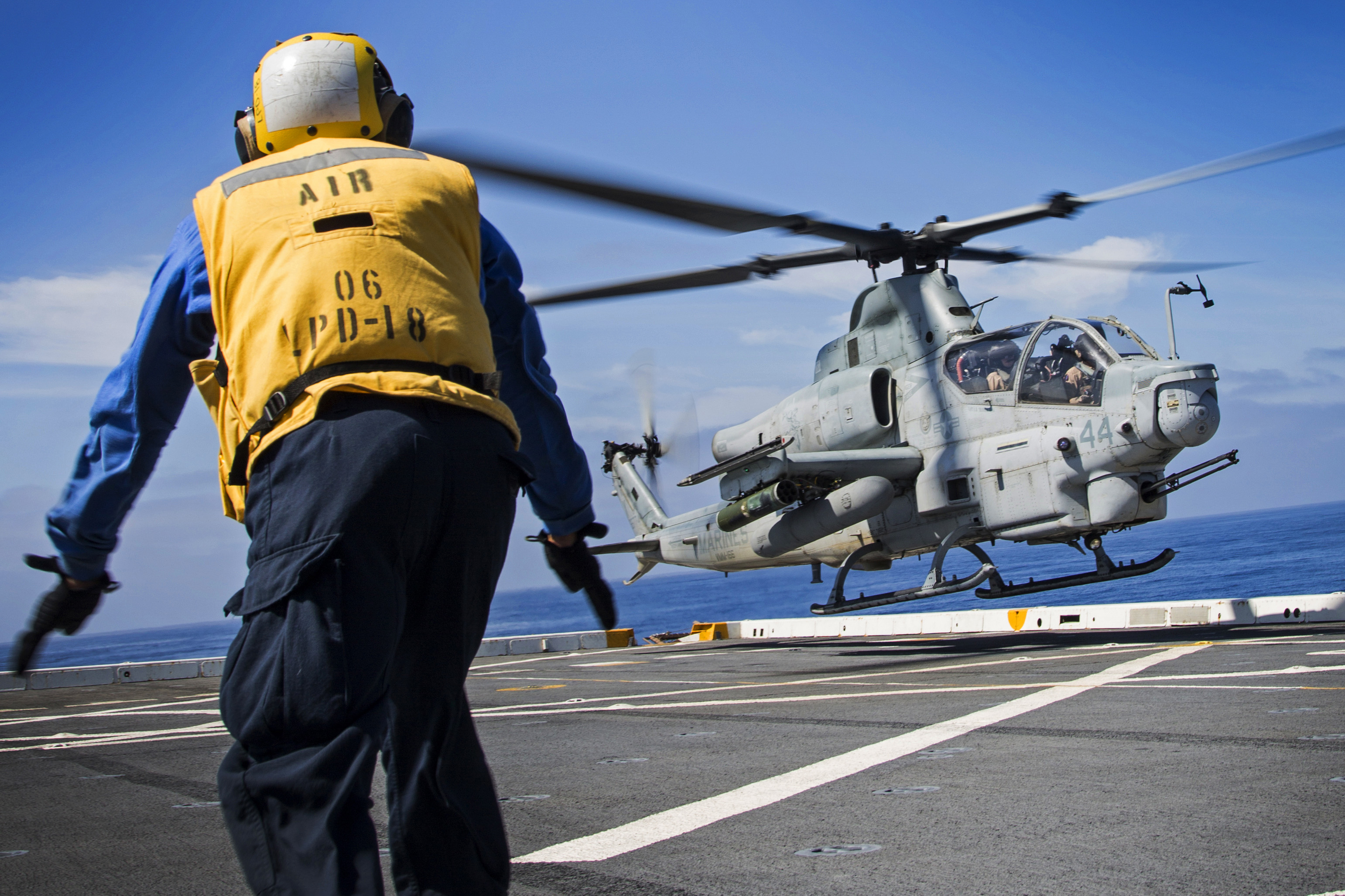 A AH-1Z Cobra with 13th Marine Expeditionary Unit, 1st Marine Expeditionary Force lands aboard the USS New Orleans during the PHIBRON-MEU Integration exercise off the coast of San Clemente, California, Sept. 27, 2015. This marks the first at-sea exercise for the PHIBRON-MEU Marines and Sailors as they work together in preparation for deployment to the Pacific and Central Command areas of responsibility in early 2016. (U.S. Marine Corps photo by Sgt. Tyler C. Gregory/released)